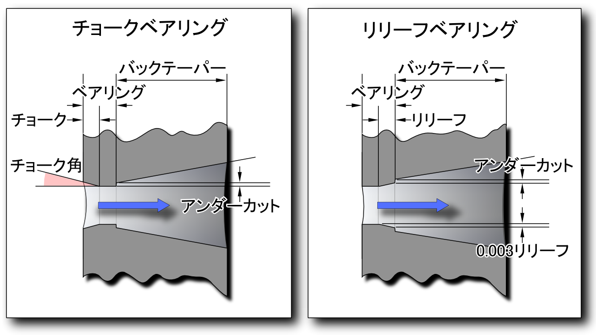 Extrusion 2types die (choke & relief) by Japanese